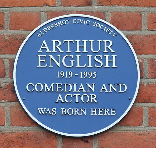 Blue plaque at 22 Lysons Road in Aldershot in Hampshire where Arthur English (1919-1995) was born This image represents an Open Plaques entry #43514.